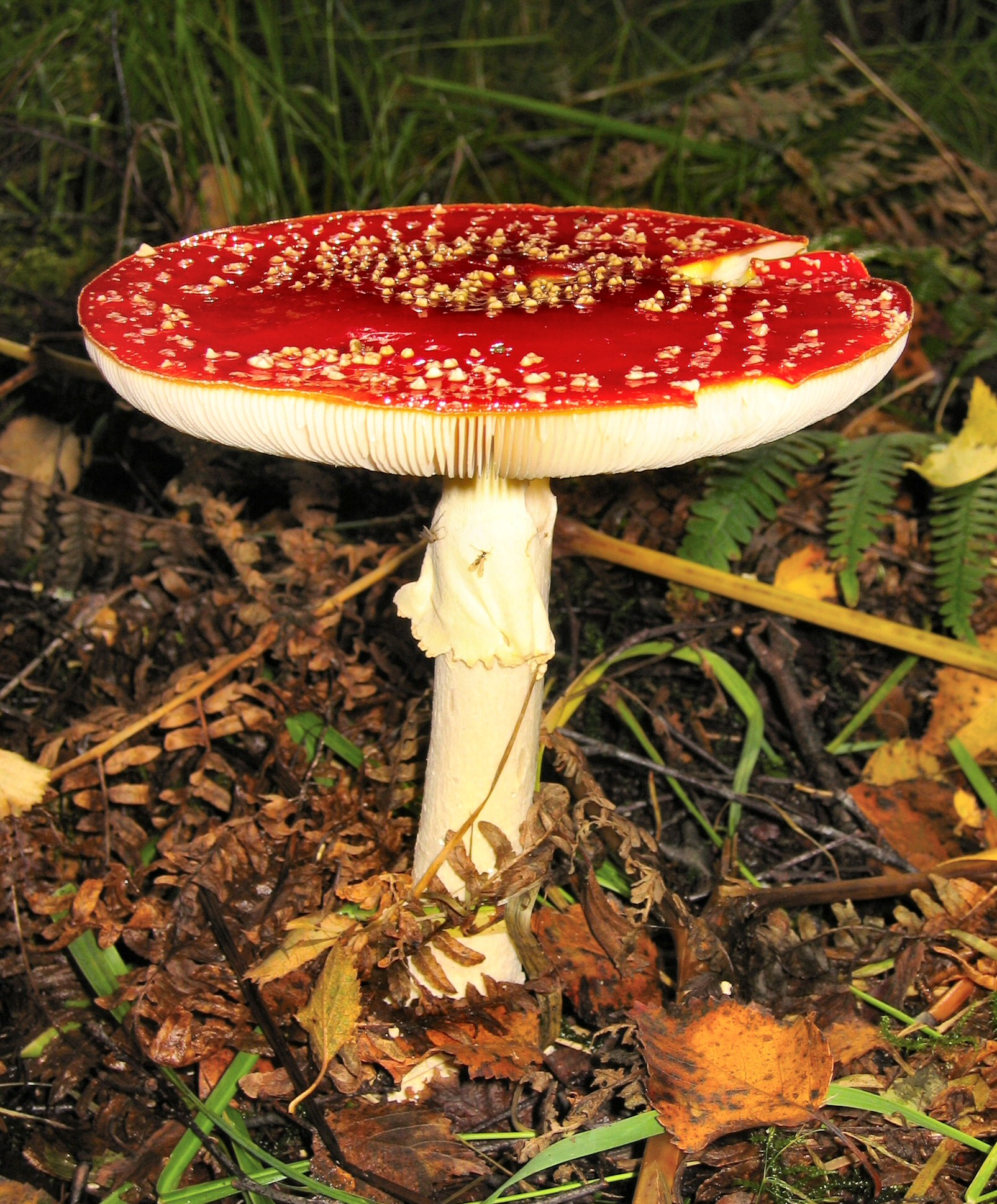 Fly Agaric (Amanita muscaria) near Tyndrum, Scotland. Picture by Tim Bekaert, Sep 20, 2005.